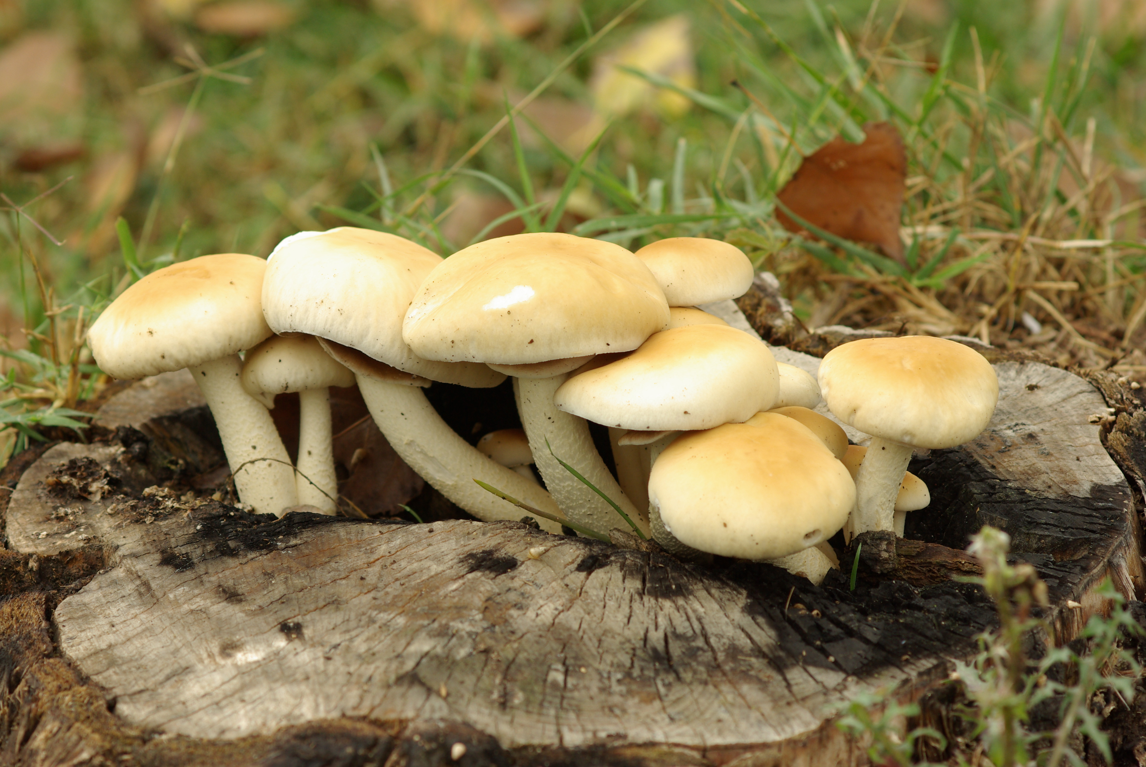 Agrocybe aegerita growing on a poplar stump in Girona, Catalonia, Spain.